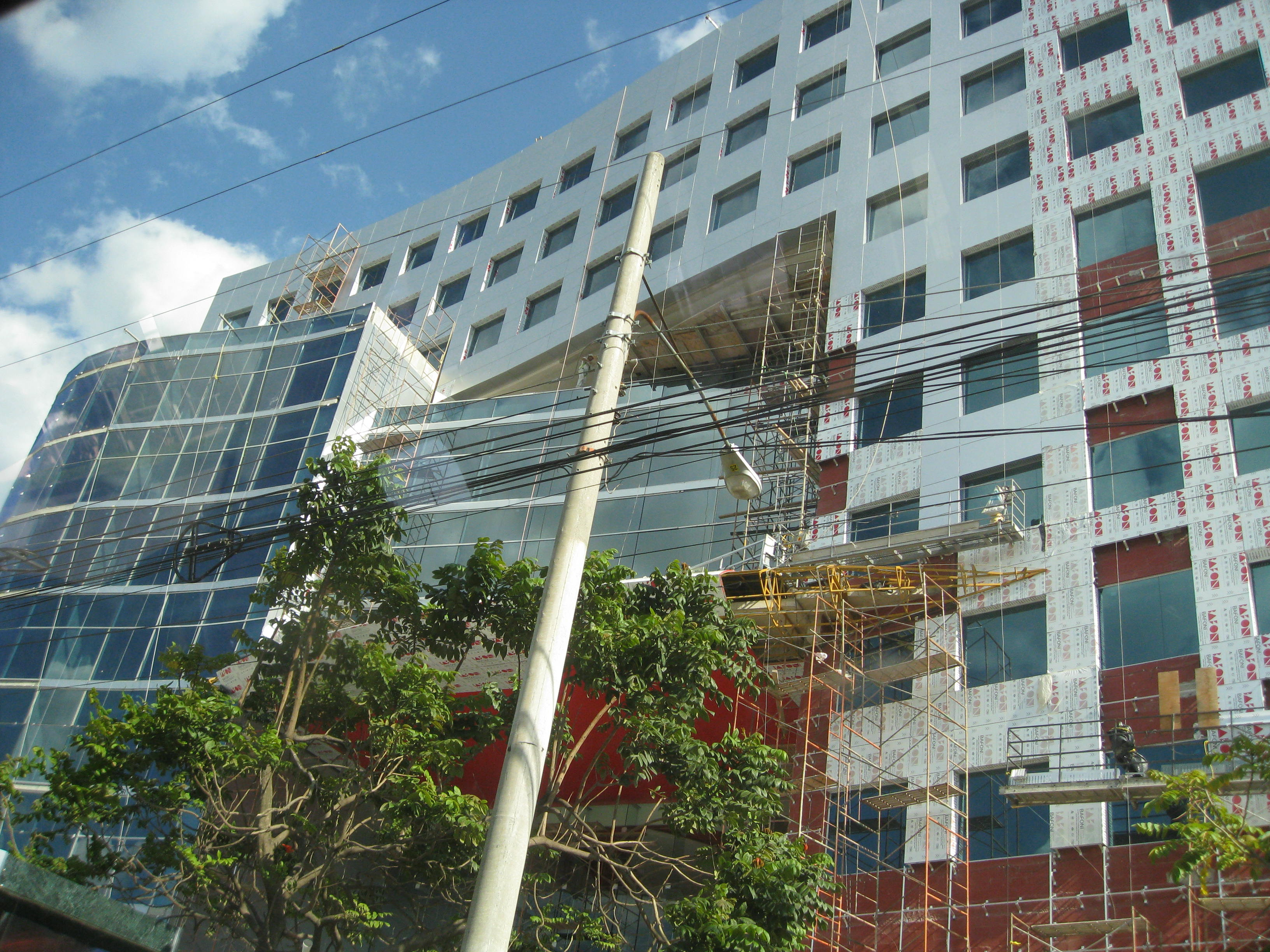 Avante Building one of the greatest buildings in the country. San Salvador.